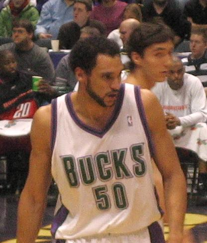 Dan Gadžurić in a Milwaukee Bucks/Charlotte Bobcats game, February 11, 2006.